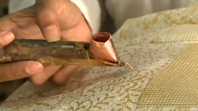 A special pen that people use for drawing batik